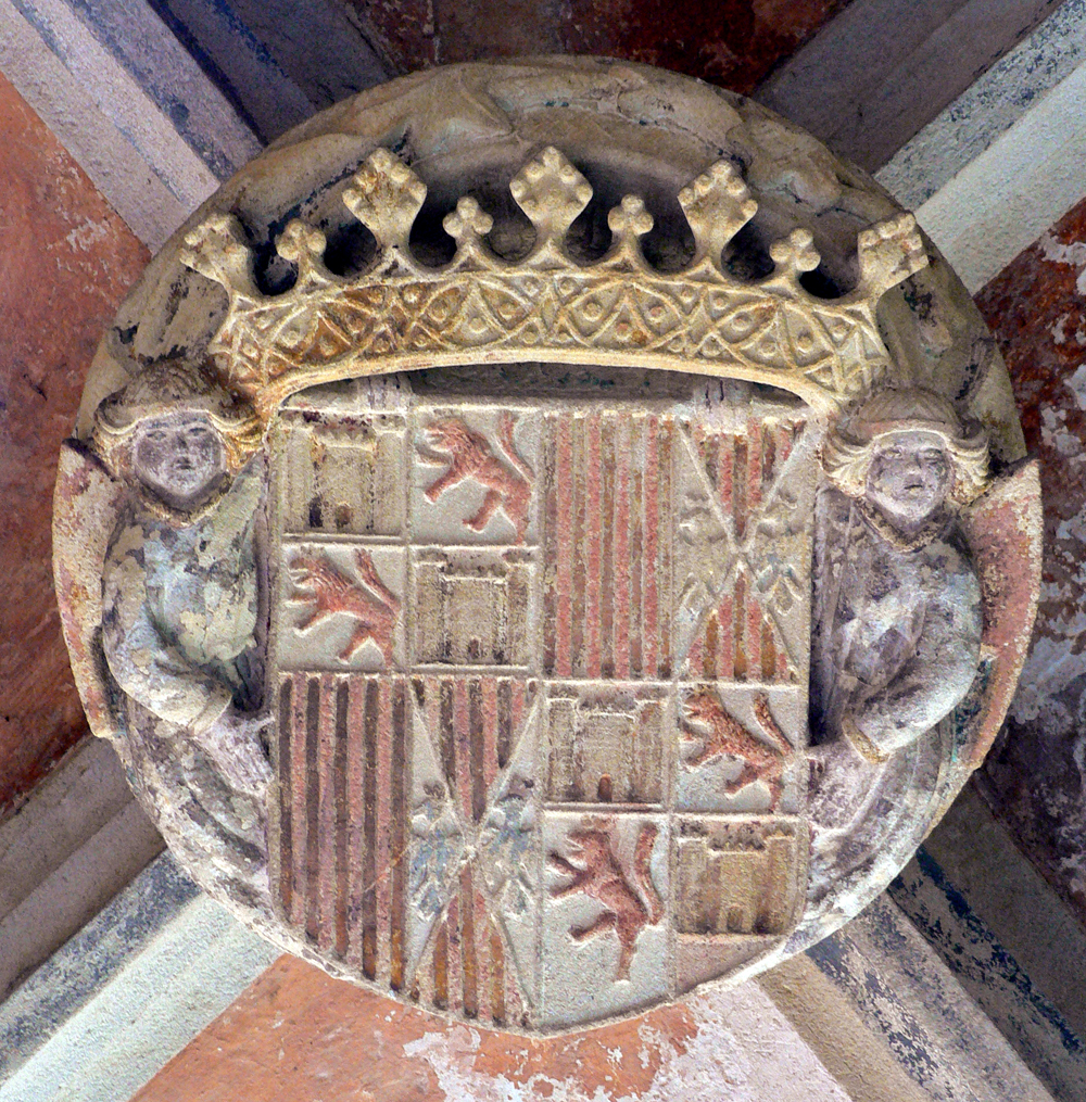 Coat of arms of Ferdinand II of Aragon, in St. Jeroni de la Murtra (Badalona, Catalonia, Kingdom of Spain).